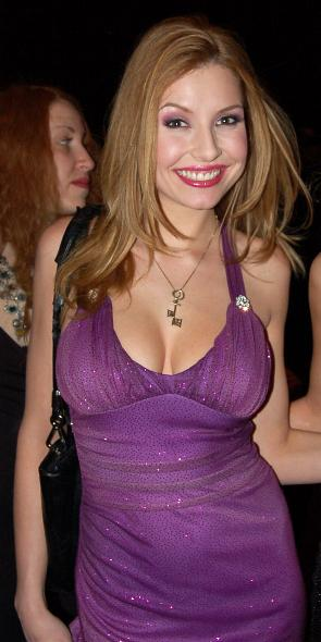 Jamie Lynn, taken on the red carpet of the AVN Awards.